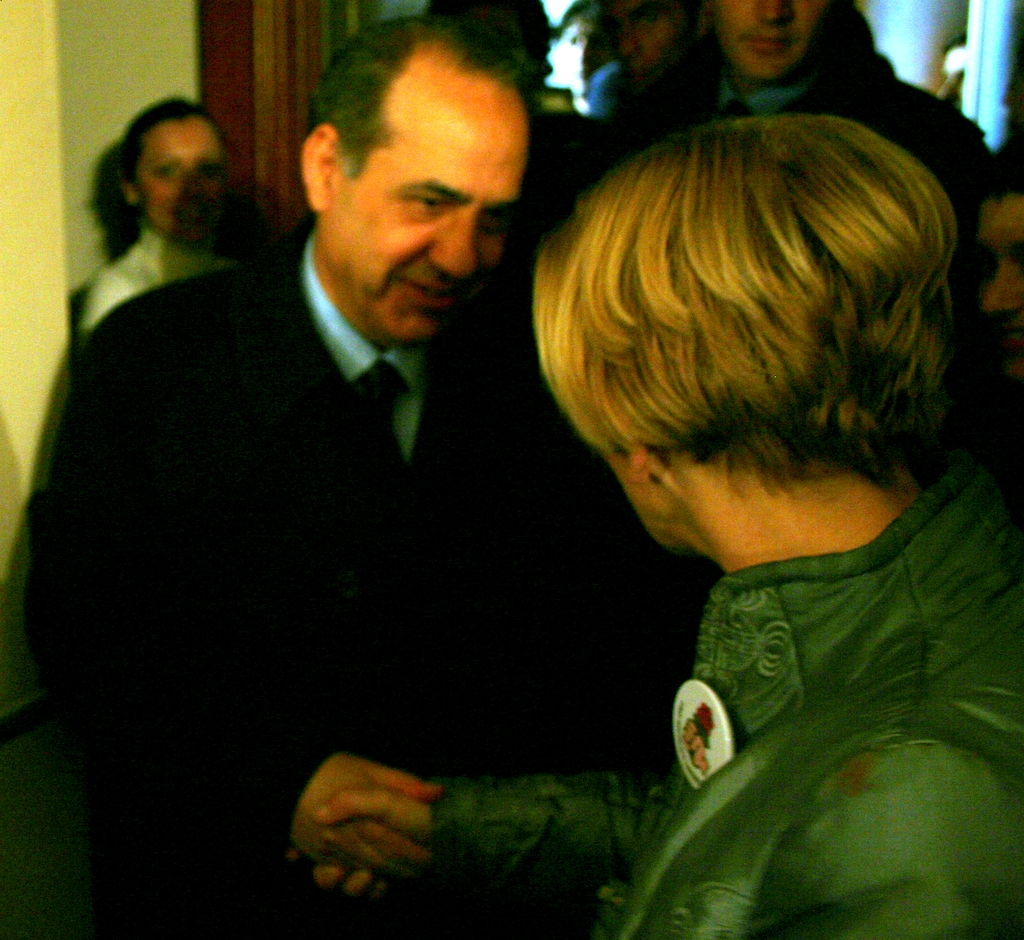 beppe pisanu, a former minister of italian government for the centre-right coalition (forza italia/popolo delle libertà), met emma bonino, the radical leader of "rosa nel pugno" (centre-left coalition), former eu commissioner and minister. it happened in lecce on 26 march 2006, while both of them where taking a press conference at hotel patria. --- lecce, italy, 2006